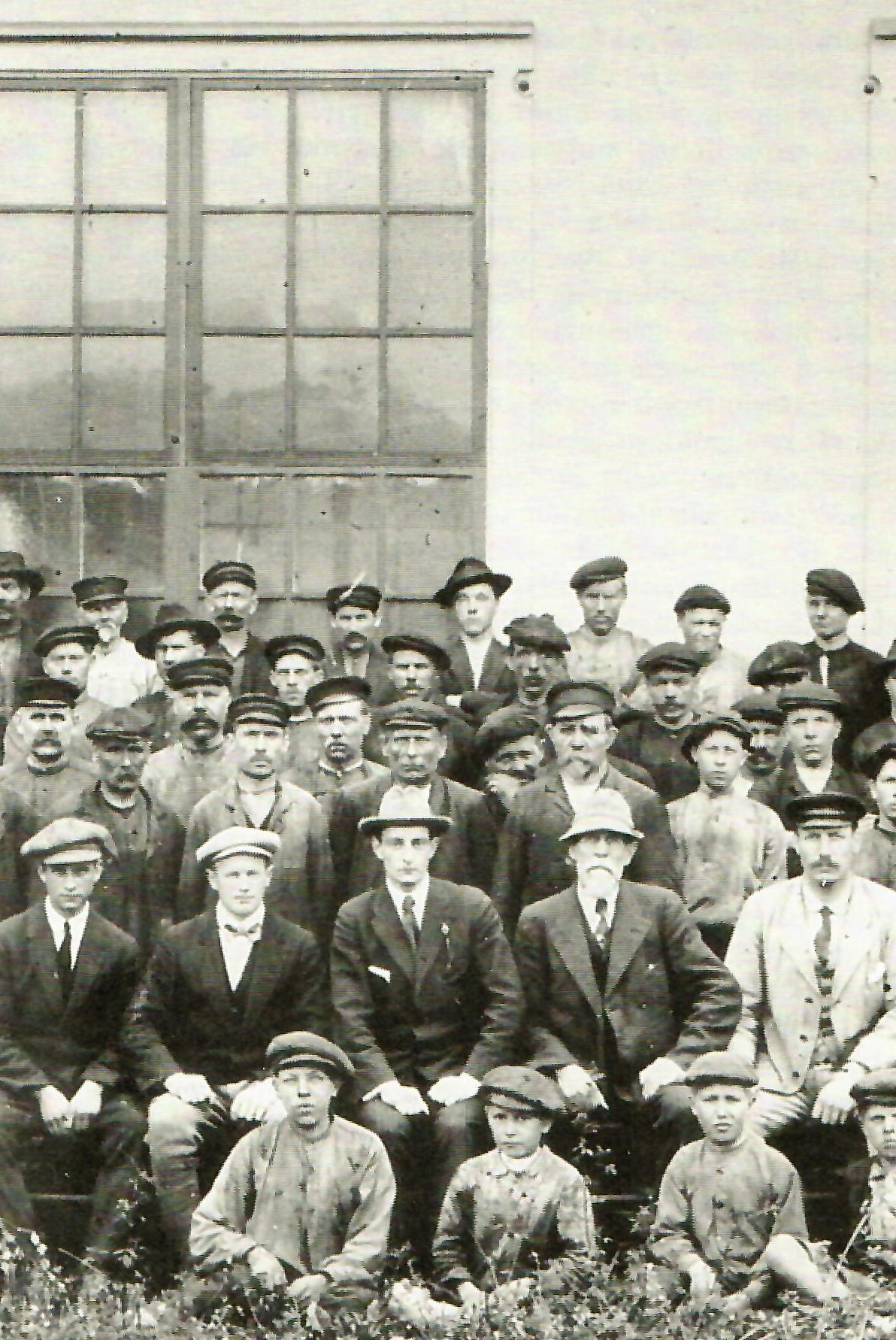 Wilhelm Wahlforss with employess of Oy Lehtoniemi Ab.